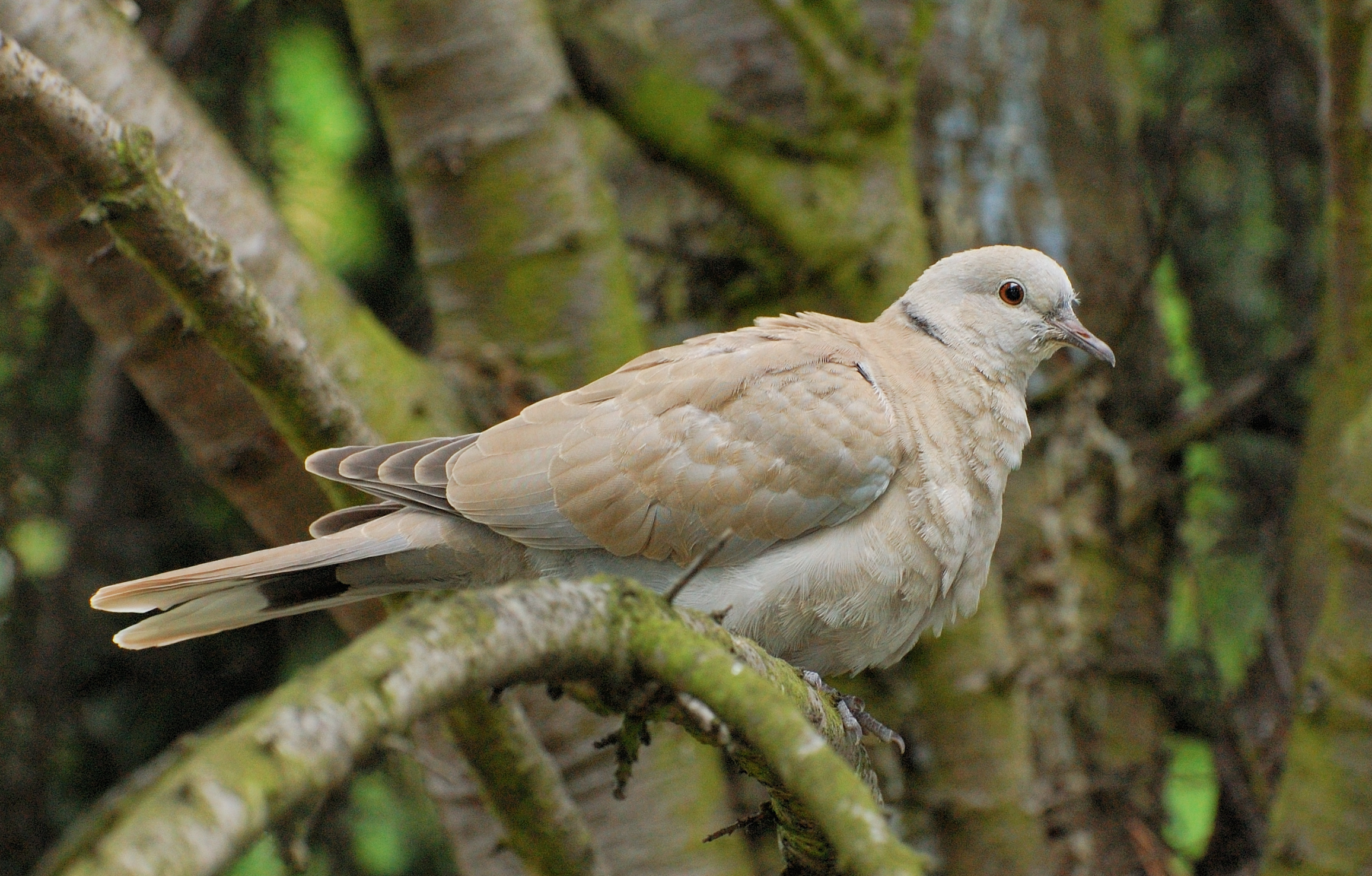 An Eurasian Collared Dove to illustrate the eponym article.